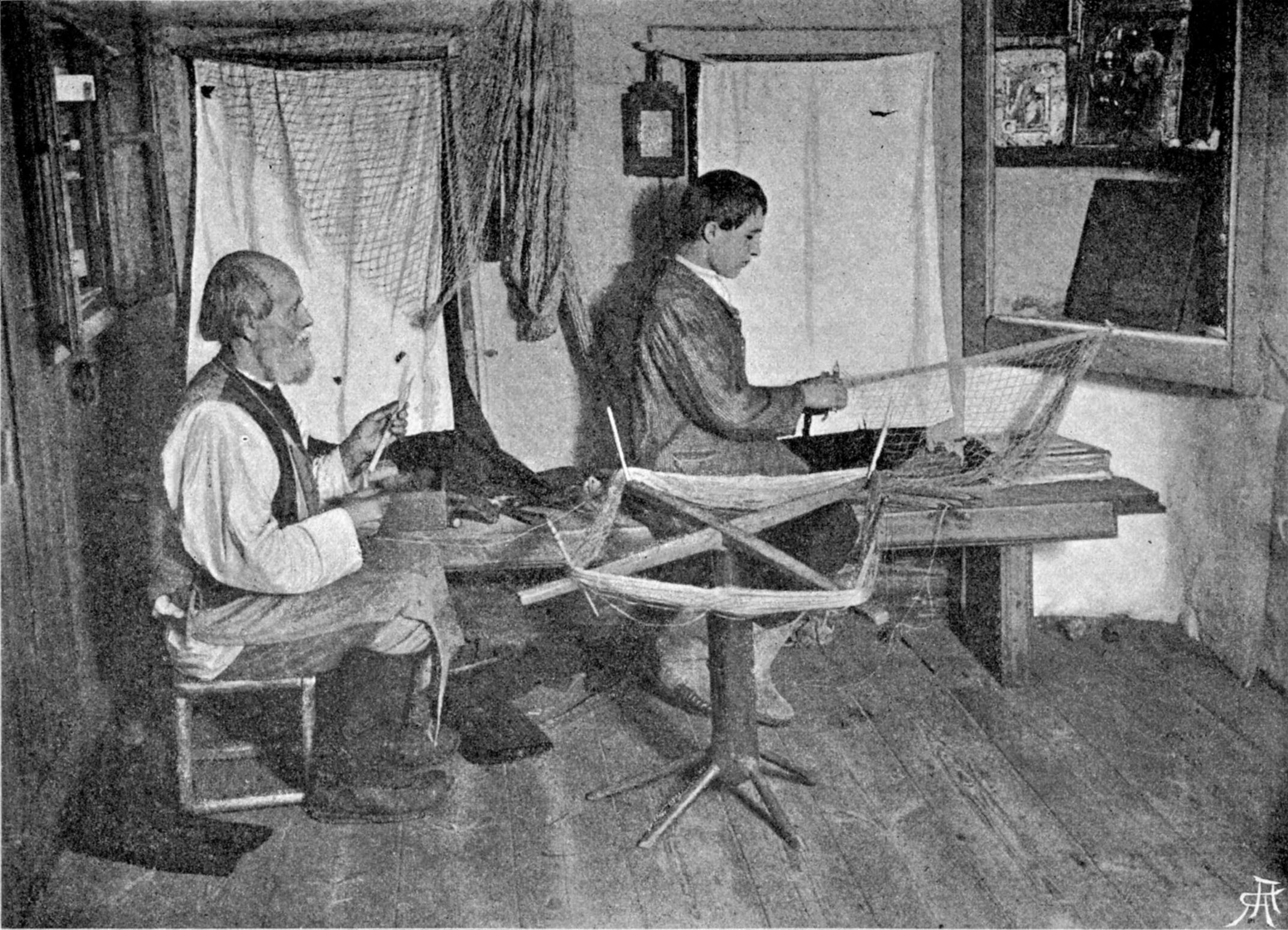 Handicraft Industry and Trades of Nizhegorodskaja gubernija. Reshetiha. XIX c.